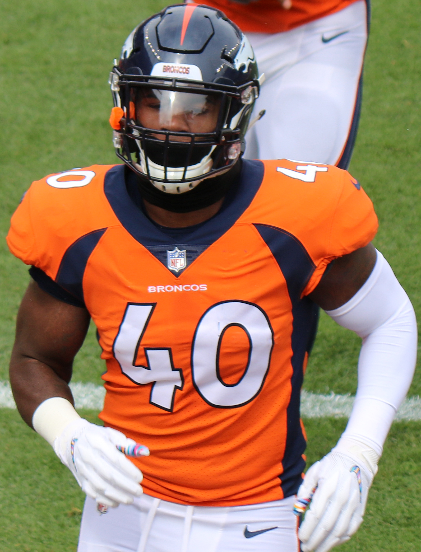 Keishawn Bierria, a National Football League player.